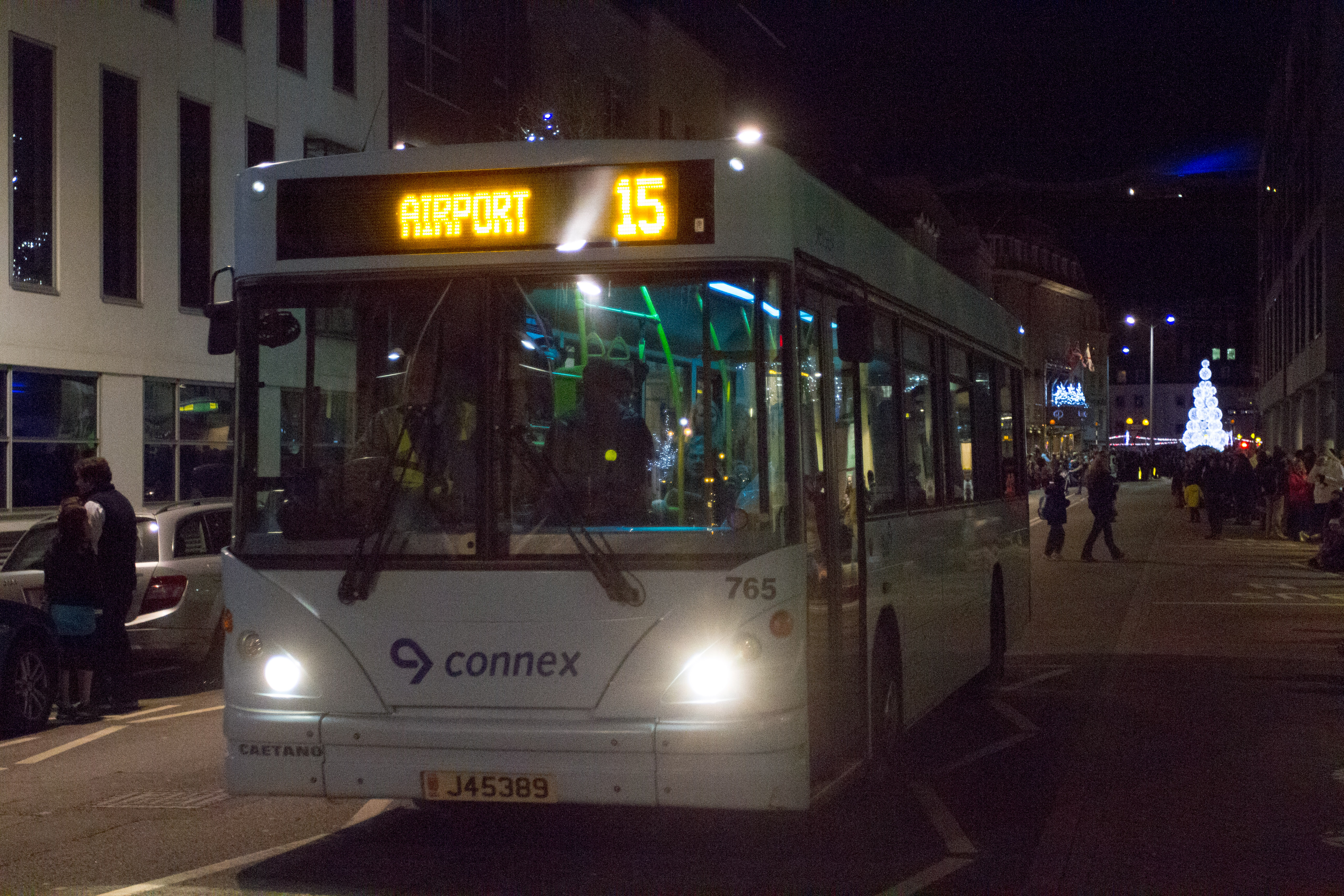 No. 15 Bus in St Helier, Jersey.